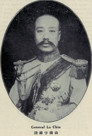 Lu Jin, Xiushan (1879 - 1946)